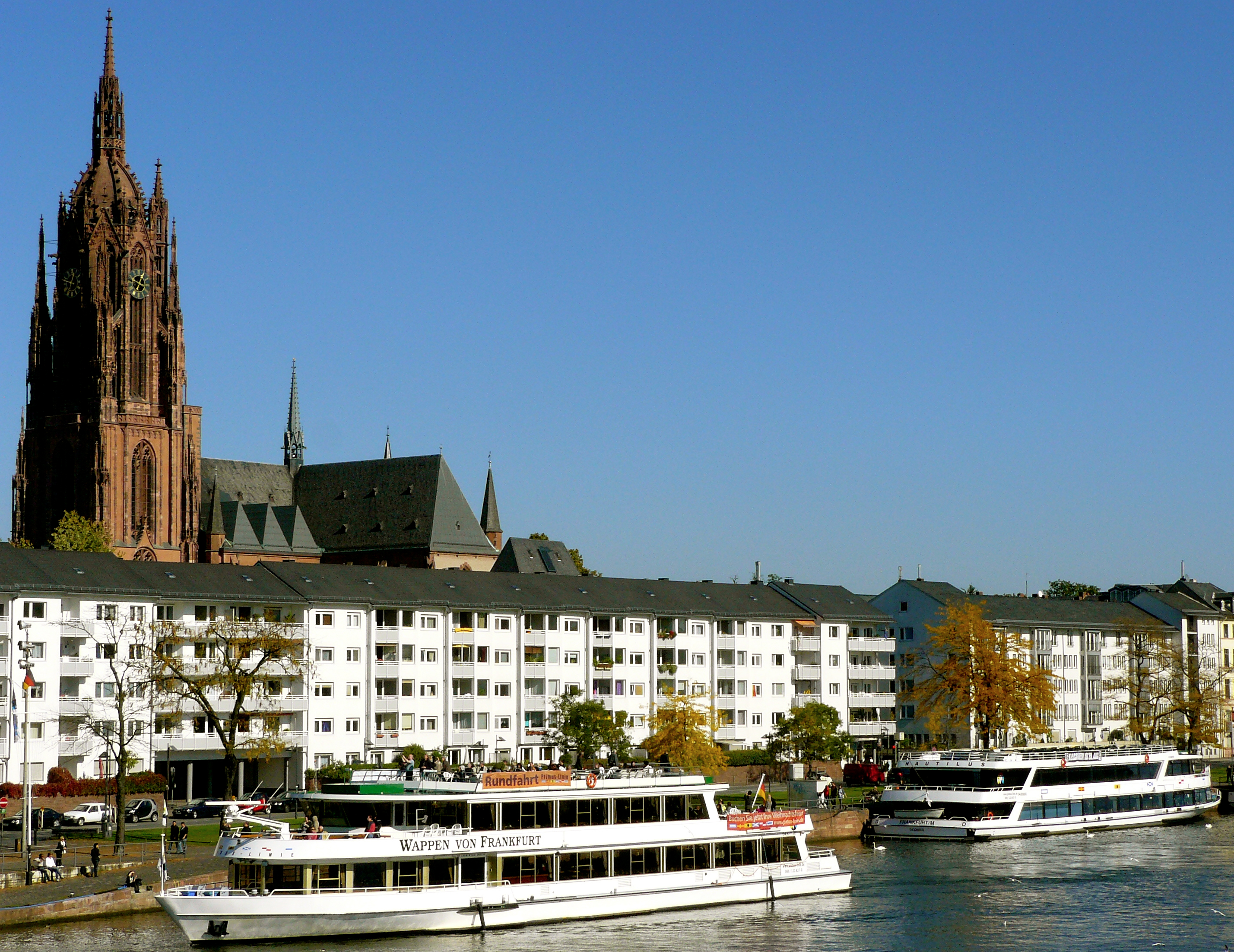 River Main and Kaiserdom St. Bartholomew in Frankfurt, Hesse, Germany